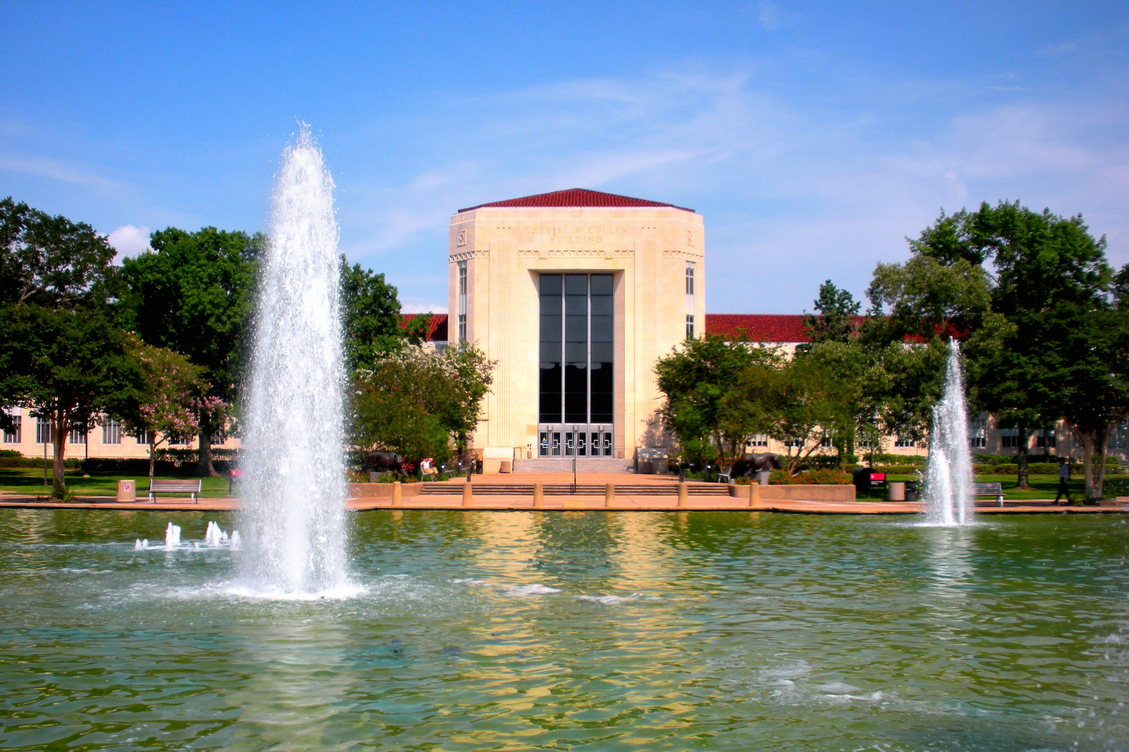 Ezekiel W. Cullen Building on the campus of the University of Houston